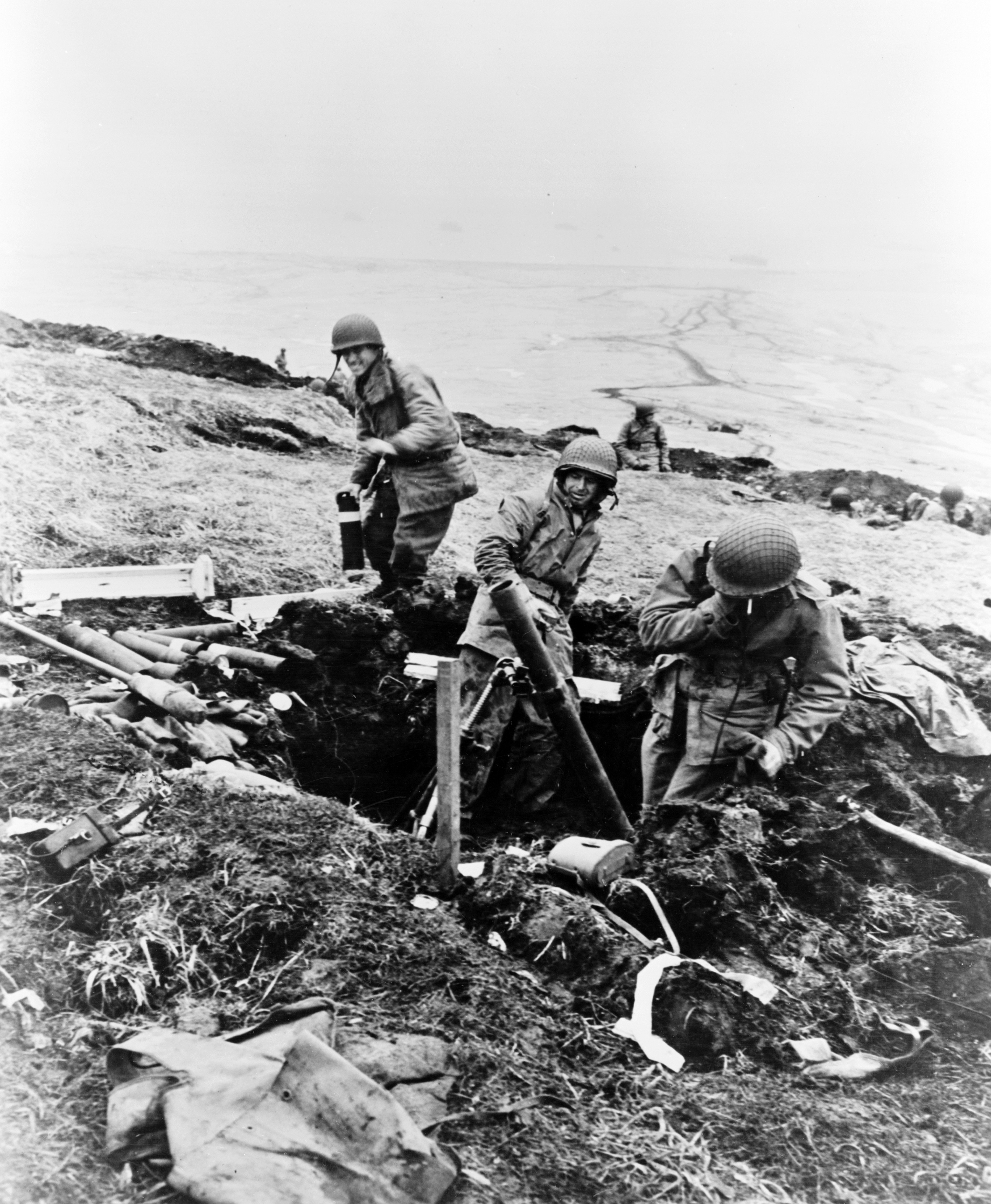 Attu, Aleutian Island. Soldiers hurling their trench mortar shells over a ridge into a Japanese position.